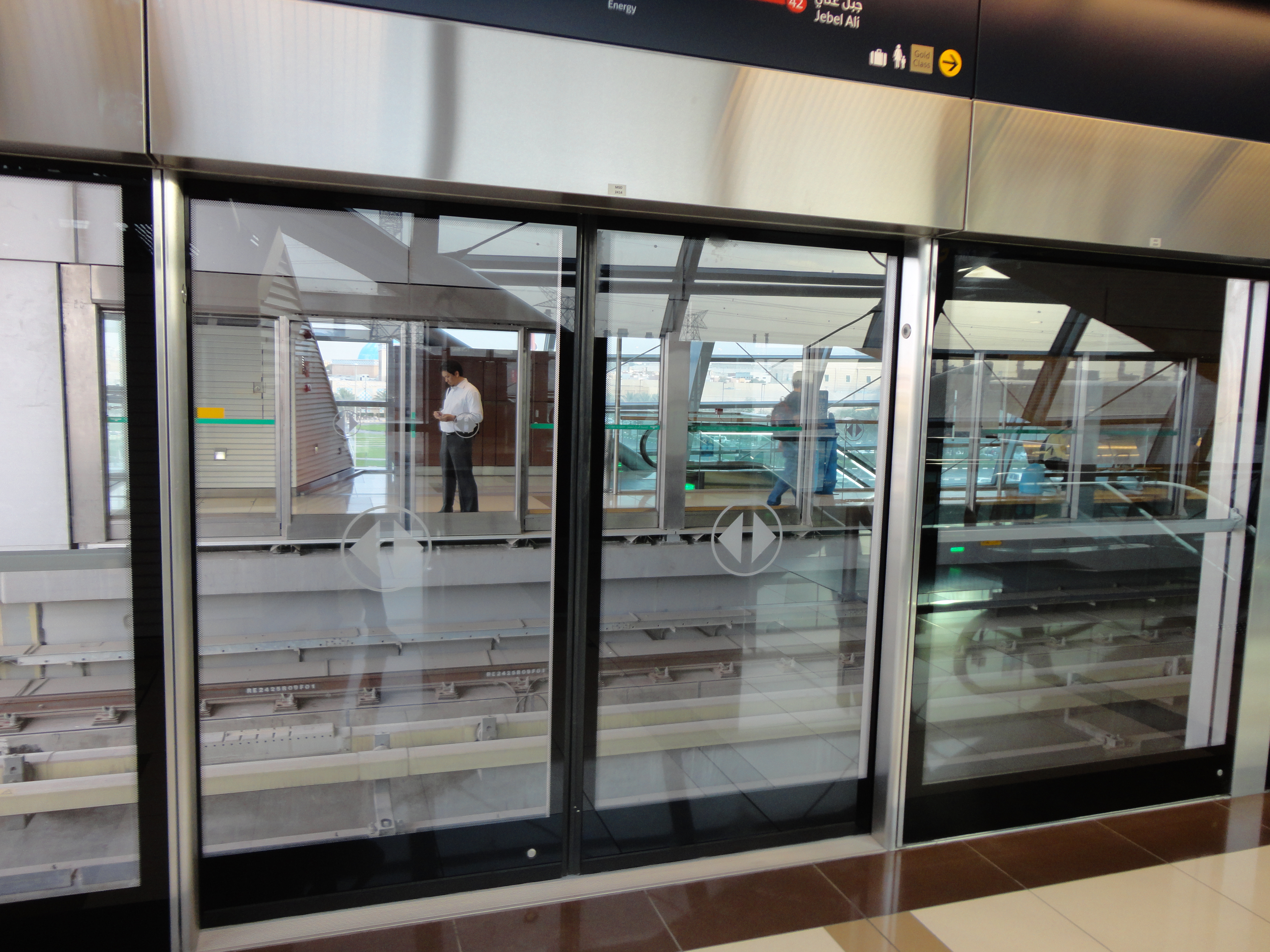 Metro Dubai red line station (ibn betuta mall)